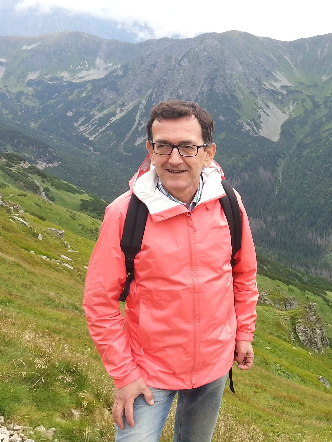 Prof. Palos 2014